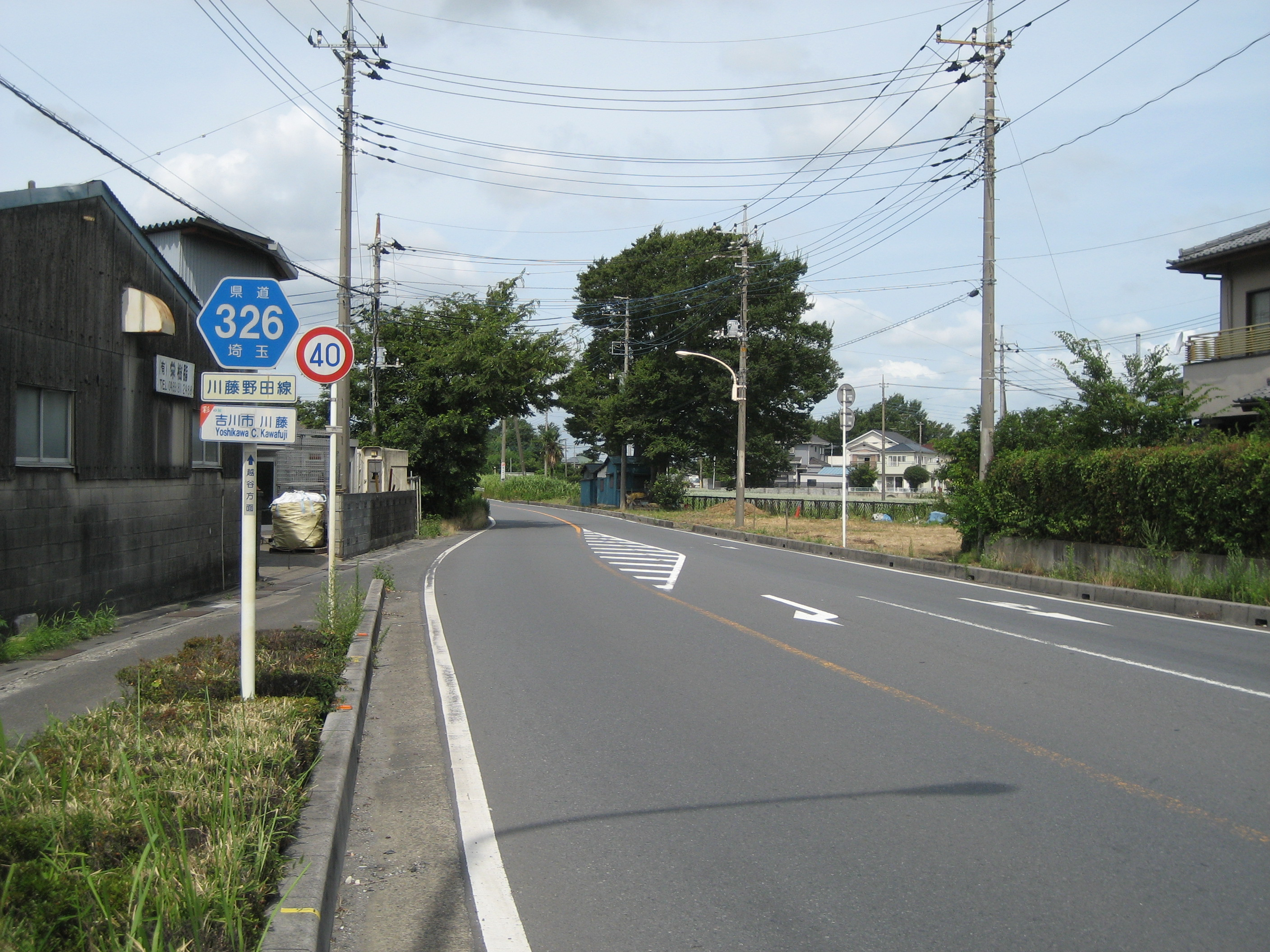 The Saitama Prefectural Road Route 326 in Kawafuji, Yoshikawa City